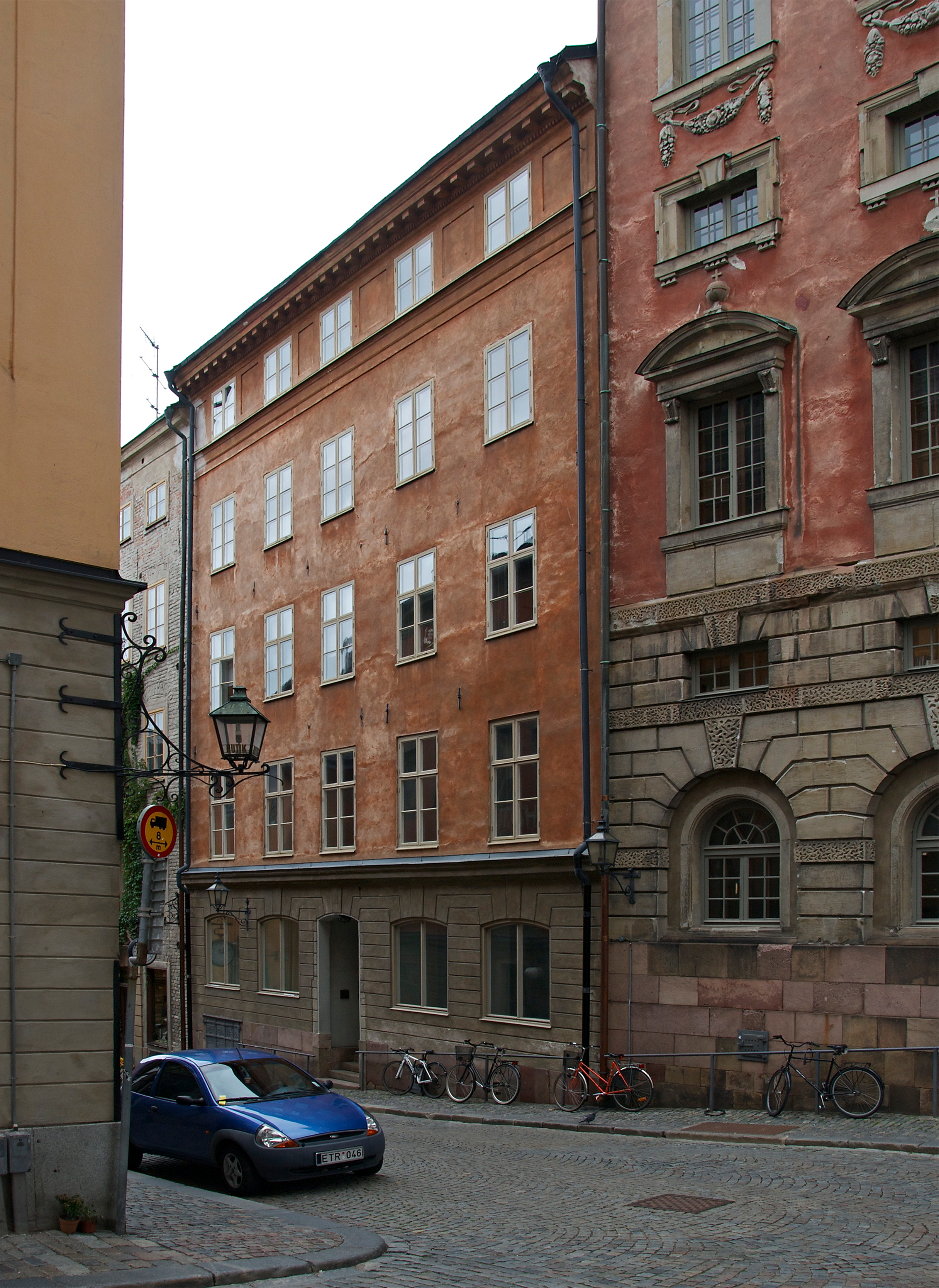 Beijerska huset (The Beijer house).